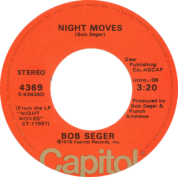 Side-A label of the original 1976 US single release of "Night Moves" by Bob Seger